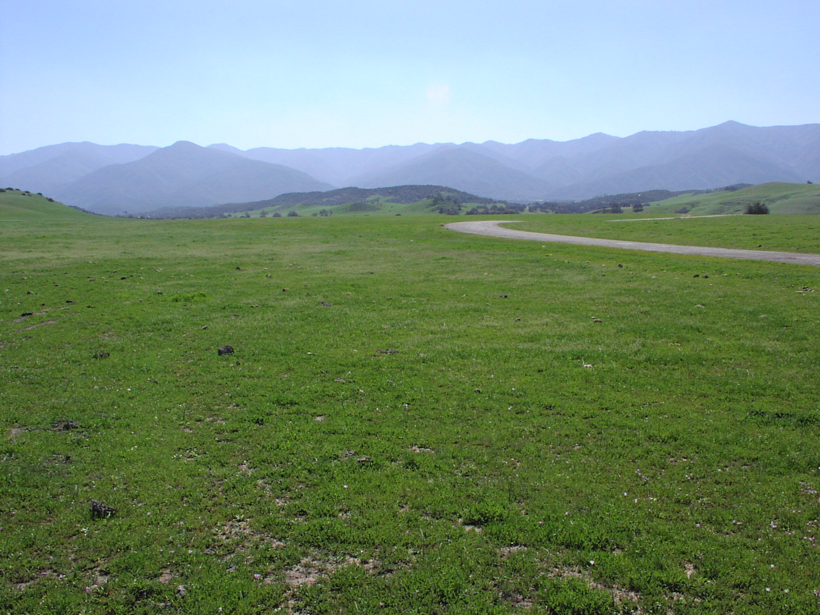 Sierra Madre Mountains